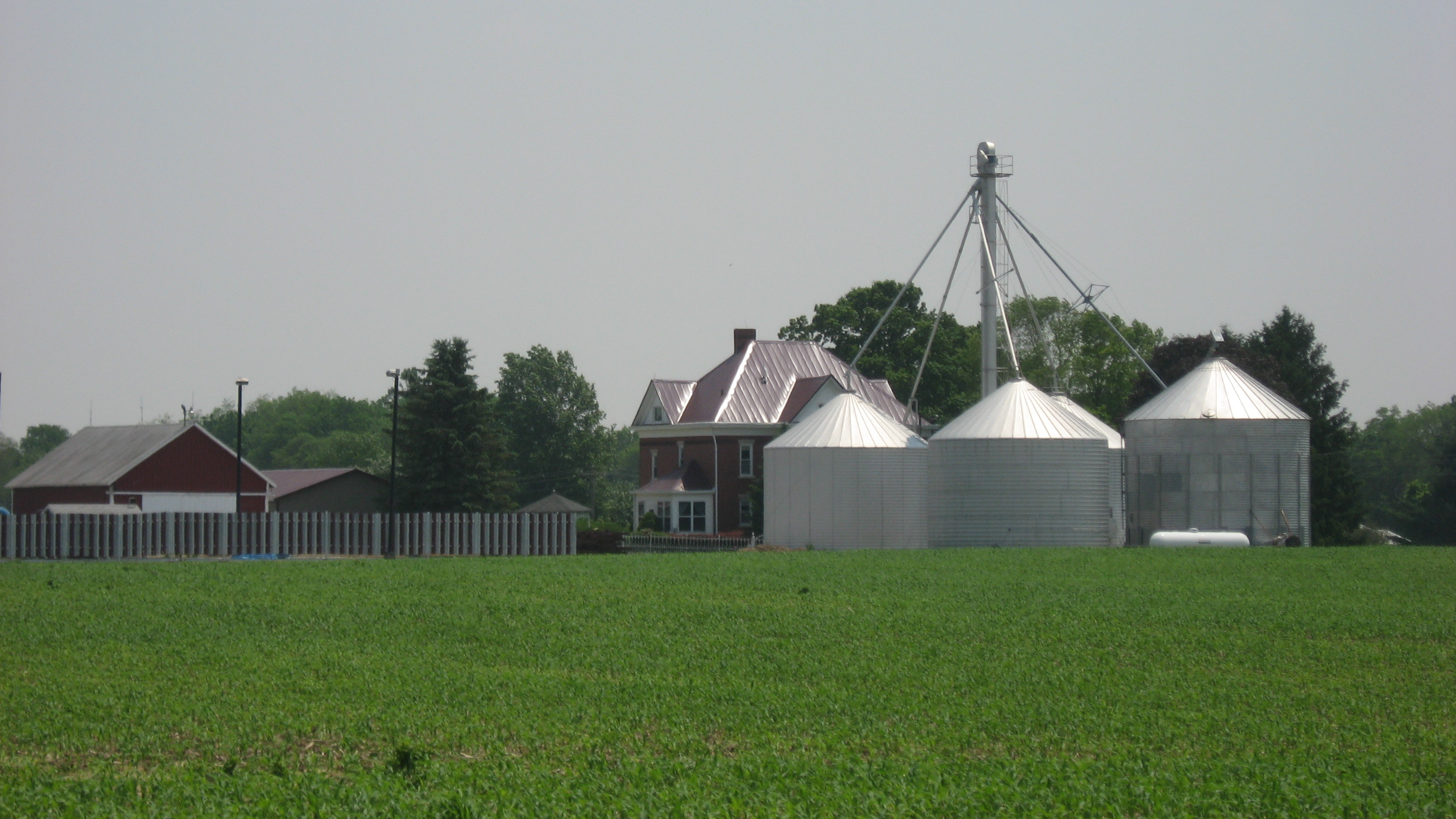 Overview from the west of the buildings at the Fred and Minnie Raber Farm, located on the northern side of State Road 218 west of Camden in Deer Creek Township, Carroll County, Indiana, United States. Built starting in 1905, the farm buildings have been designated a historic district and are listed on the National Register of Historic Places.